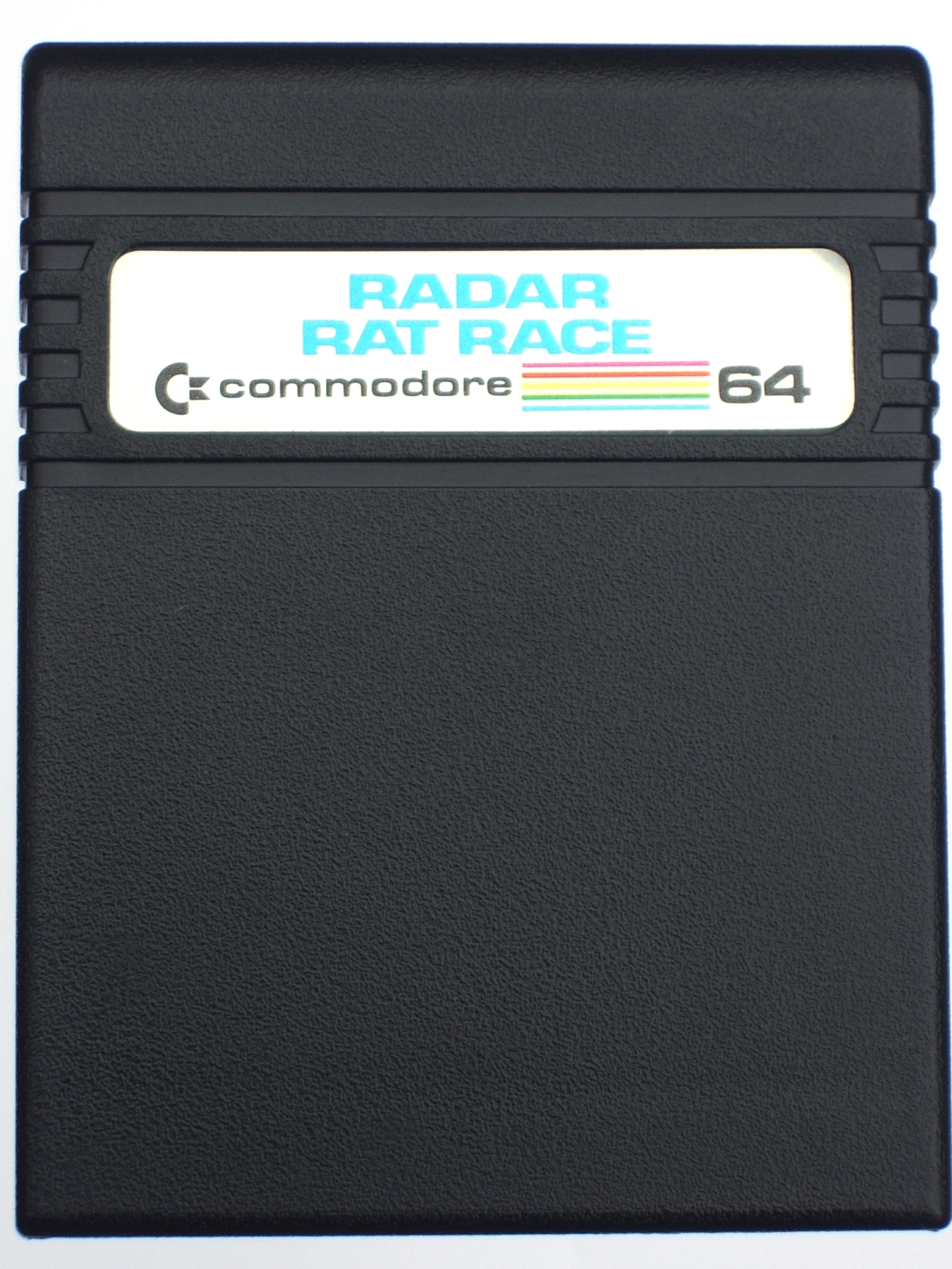 Commodore 64 game cartridge - Radar Rat Race.